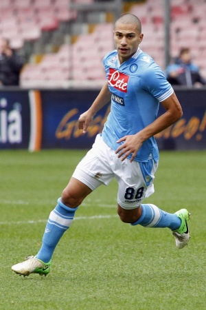 zzz zz